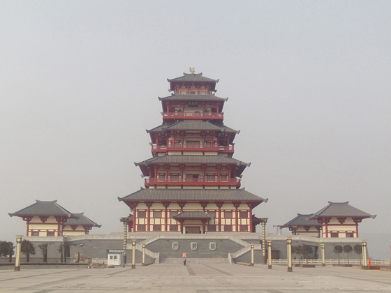 Shigu Mountain